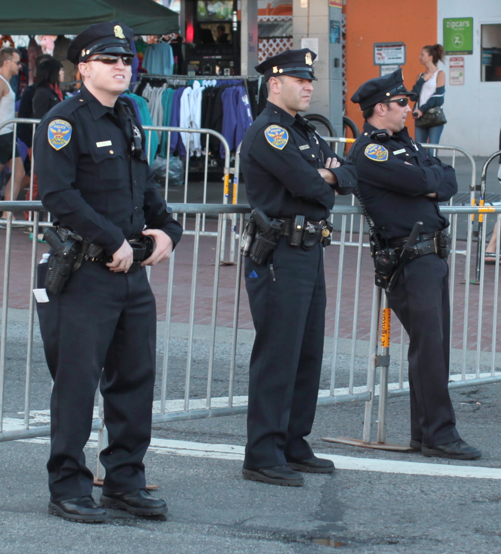 present and accounted for : pink saturday, san francisco (2012)